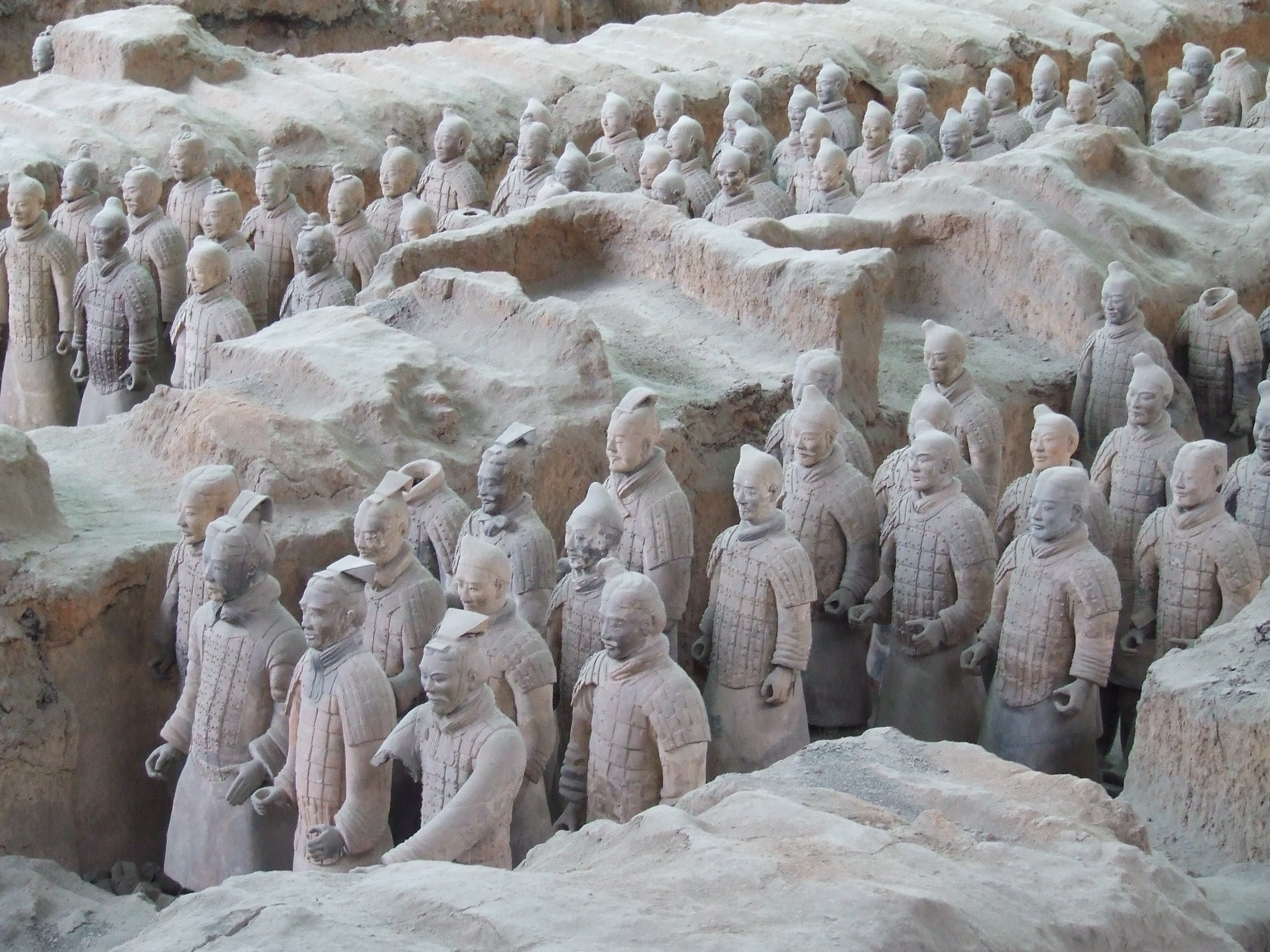 Terracotta Army of Emperor Qin Shi Huangdi near Xian